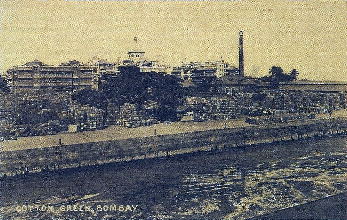 Cotton mill textile mill, Colaba with Taj Mahal Palace Hotel in the background